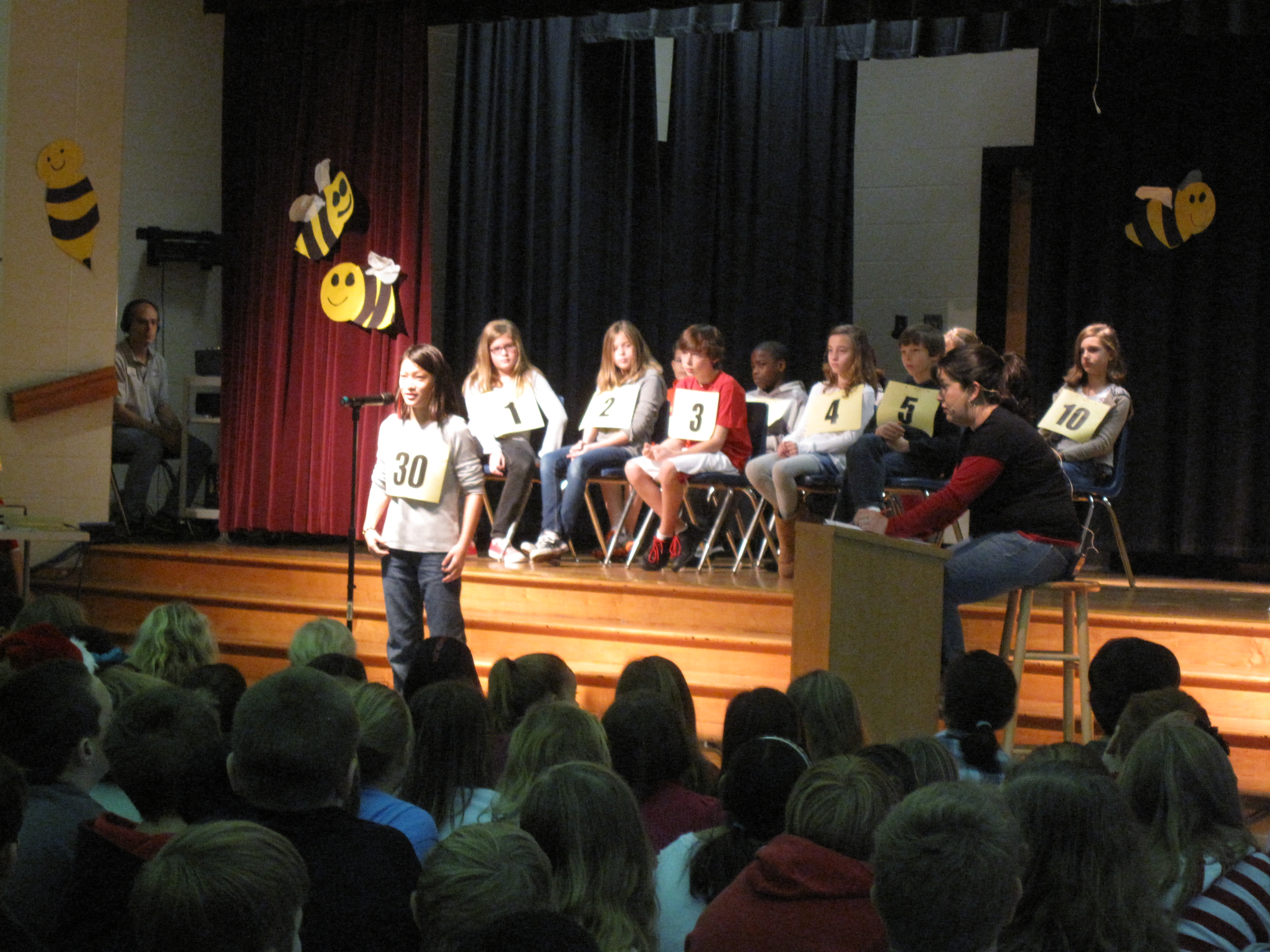 A school spelling bee in 2011.